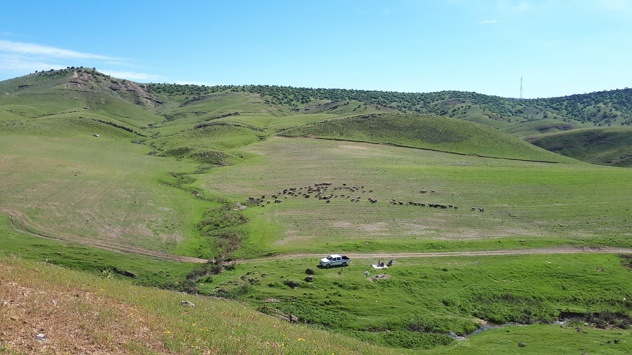 Tawgozy